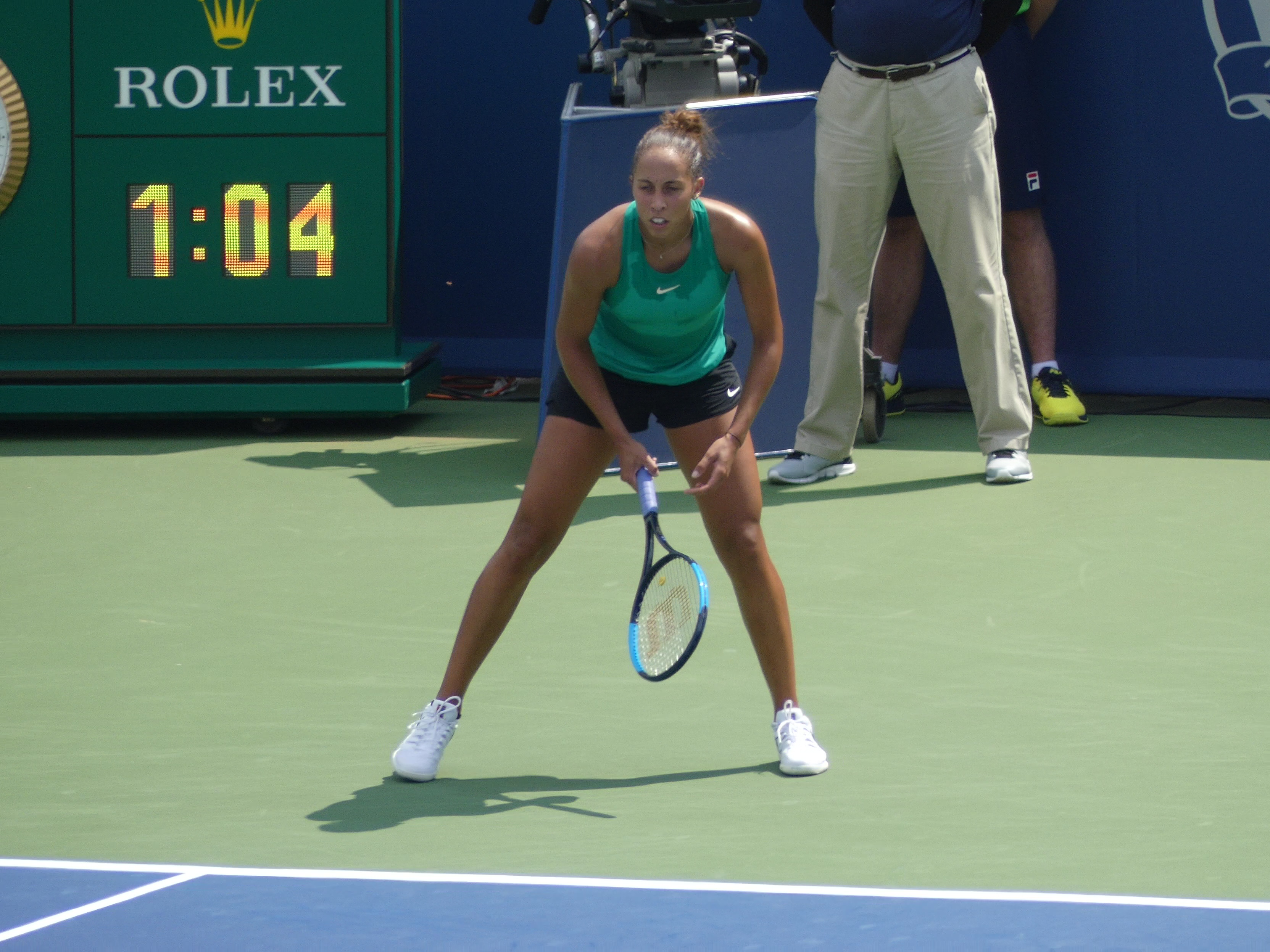 Madison Keys during her first round match of the 2018 Western and Southern Open against Bethanie Mattek-Sands.